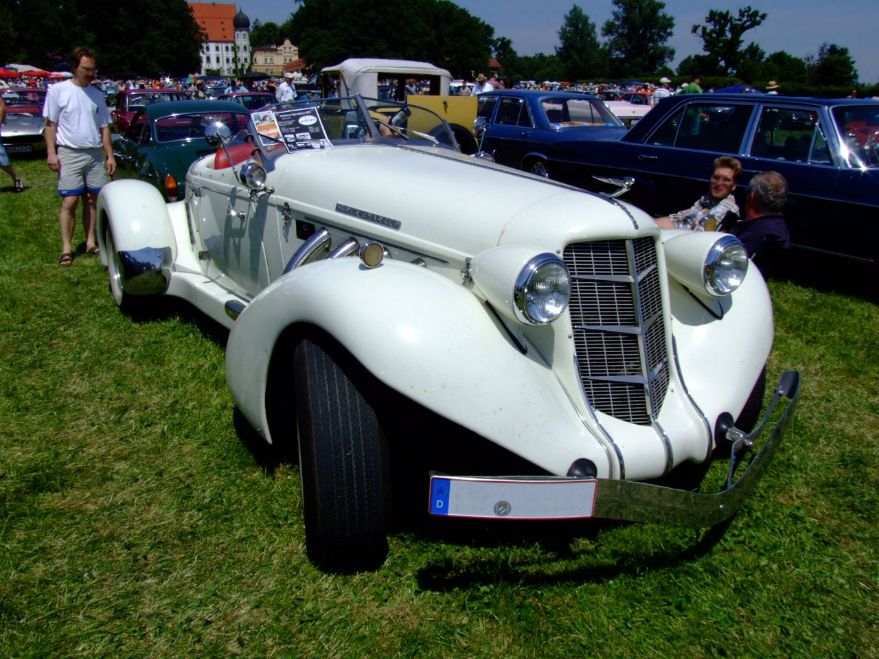 Replica of Auburn 852 Speedster